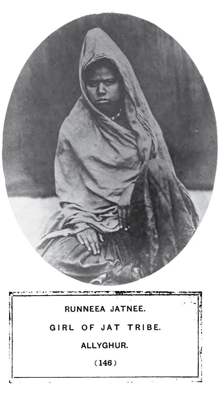 Jat girl from Aligarh (then North-Western Provinces, now UP), India